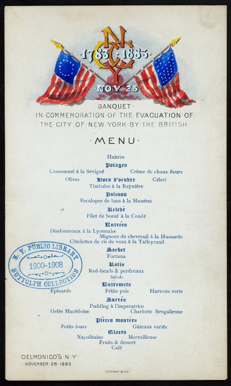 Image Title: BANQUET FOR THE EVACUATION OF NYC BY THE BRITISH [held by] NYCC [at] "DELMONICO'S, NY" (HOTEL) Additional Name(s): Buttolph, Frank E., Miss, d. 1924 -- Collector Item Physical Description: CARD;ILLUS;4.5 X 7.75 Notes: PRINTED IN FRENCH Source: The Buttolph collection of menus / 1883